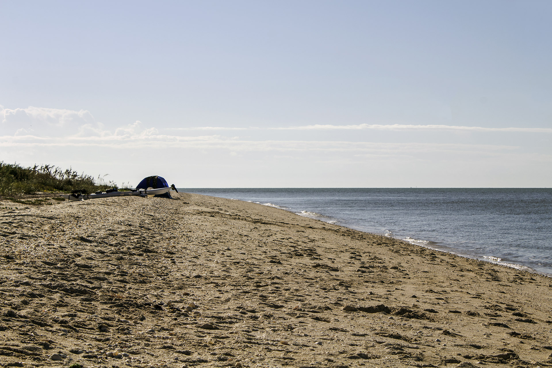 East Cape Sable (Southernmost Continental United States) in the Everglades National Park